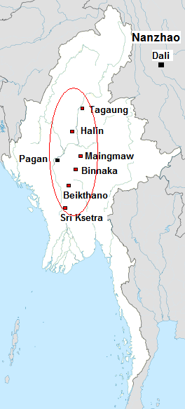 Location of Pyu city-states shown in the present-day borders of Myanmar